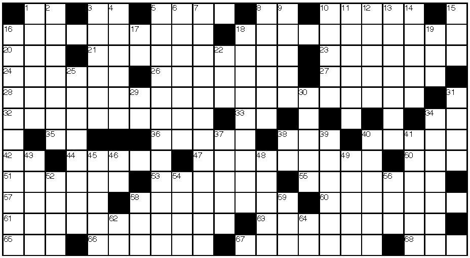 Crossword scheme, italian style (a schema libero), Related to Image:PCSL S.png (solution)